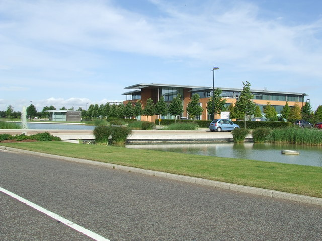 Cambourne Business Park Part of Cambourne business park Cambourne, Cambridgeshire.